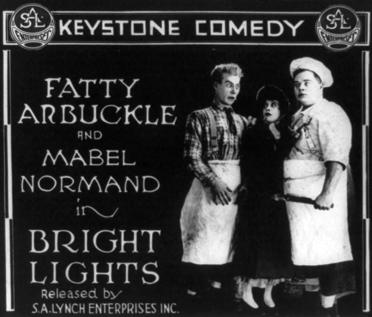 Advertisement for Bright Lights (1916), a film starring Fatty Arbuckle and Mabel Normand.